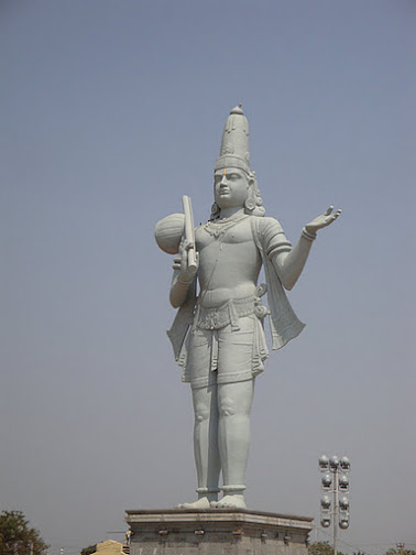 This huge 108 feet statue of Annamayya located at Rajampet